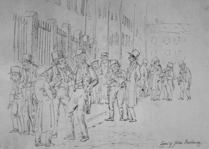 Jews outside the Synagouge in Krystalgade, Copenhagen, Denmark